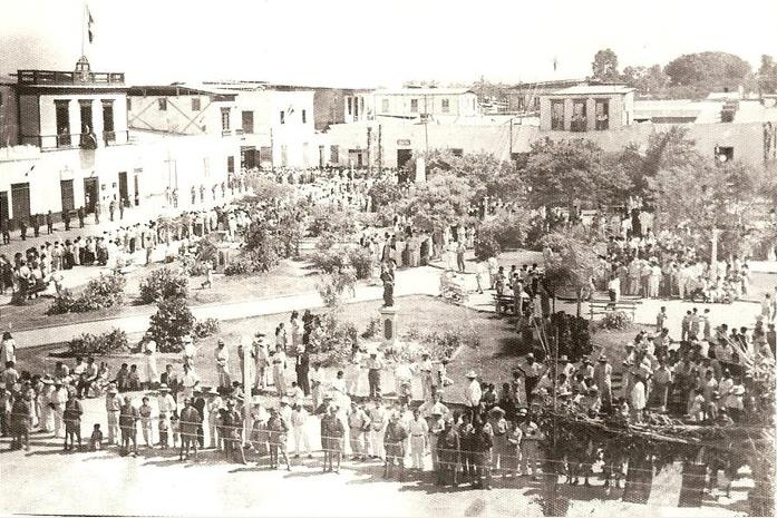 Parada Militar en la Plaza de Armas